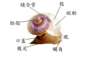 The struture of Caenogastropoda